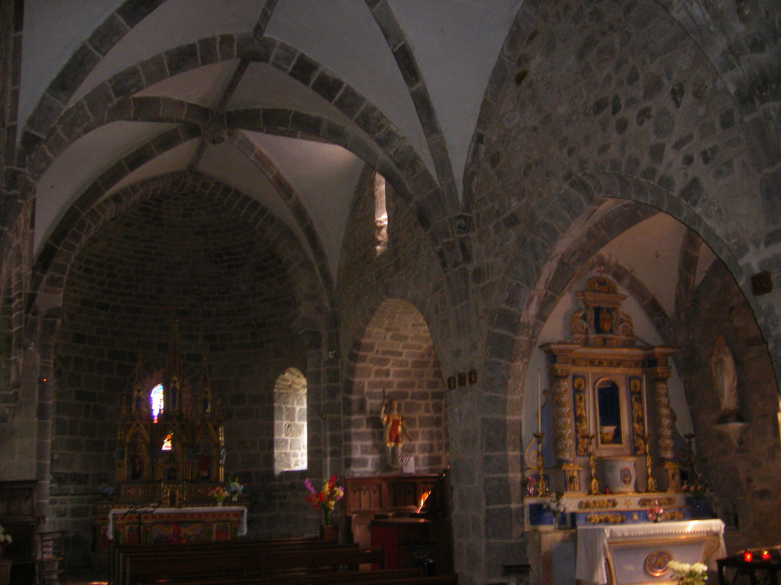 Churches of Saint-Hippolyte